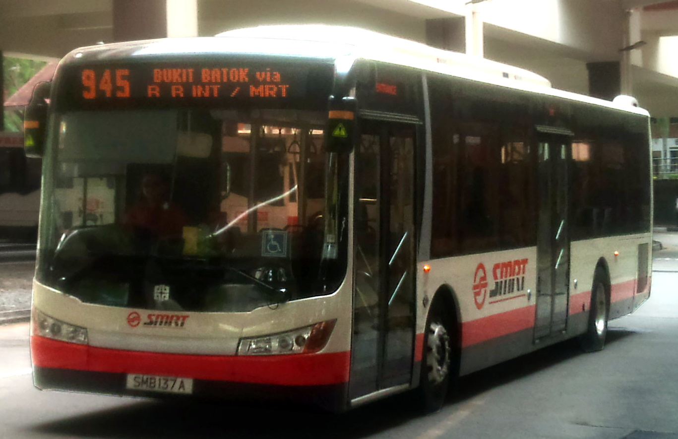 SMRT's Zhongtong LCK6121G HEV Hybrid demonstrator (registered as SMB137A). It is a diesel-electric hybrid bus, and is on a six-month trial, beginning on 19 January 2011, with SMRT Buses, on services 106 or 945.